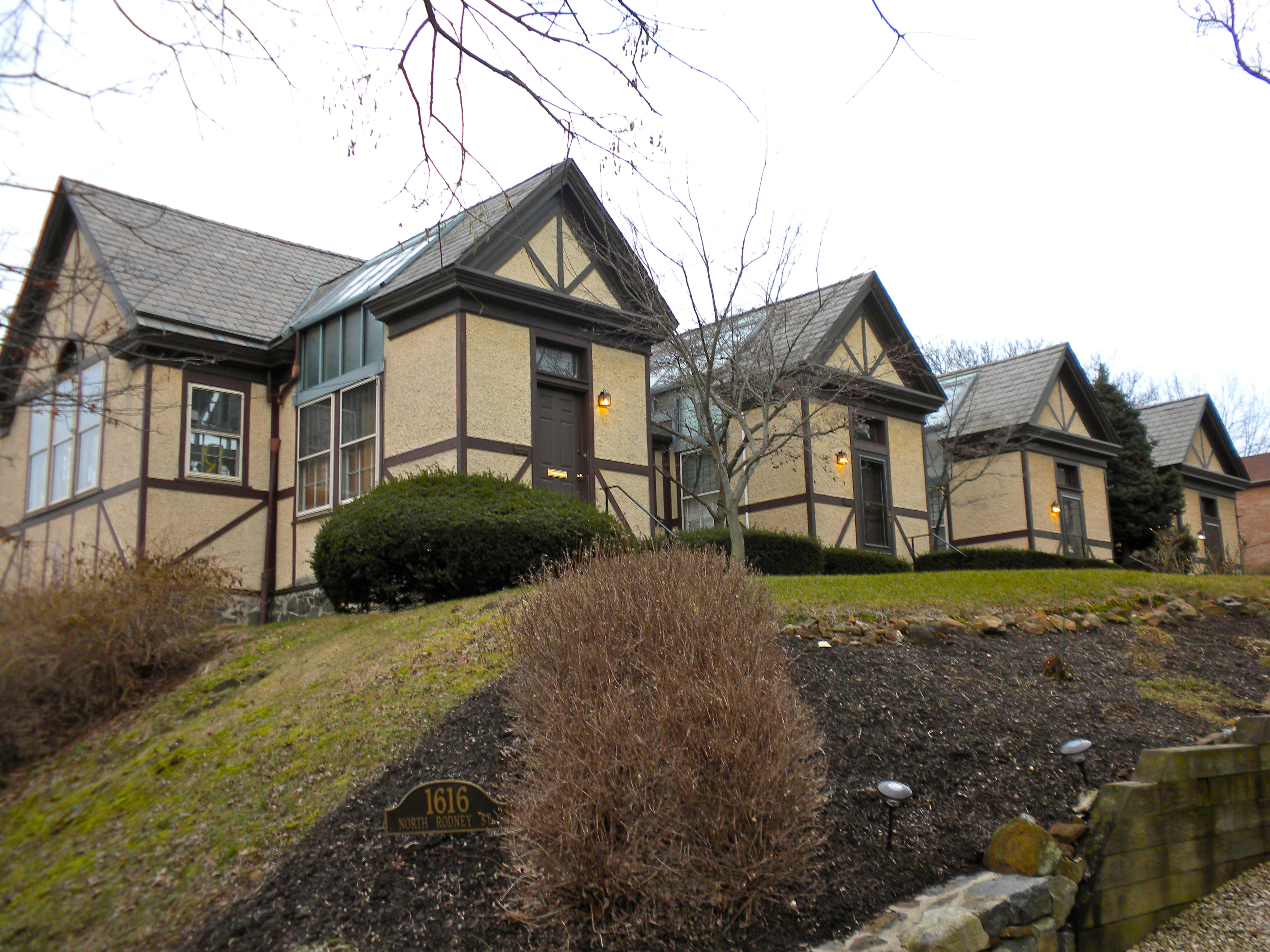 Frank E. Schoonover Studios, on NRHP since April 20, 1979, at 1616 Rodney St. Wilmington, Delaware. Training site for many "Brandywine School" painters.